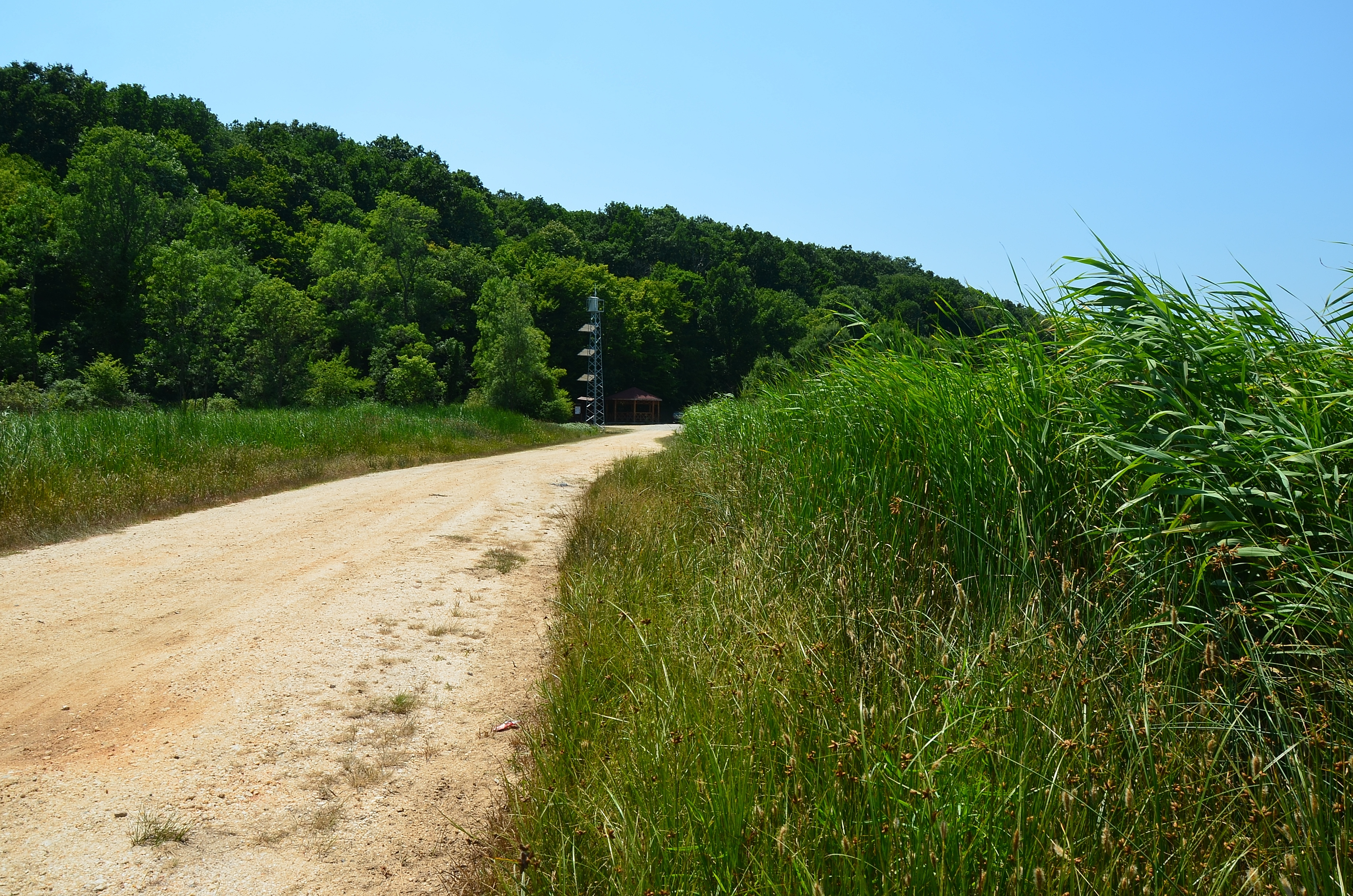 A view in the İğneada Floodplain Forests National Park in İğneada, Kırklareli Province, Turkey